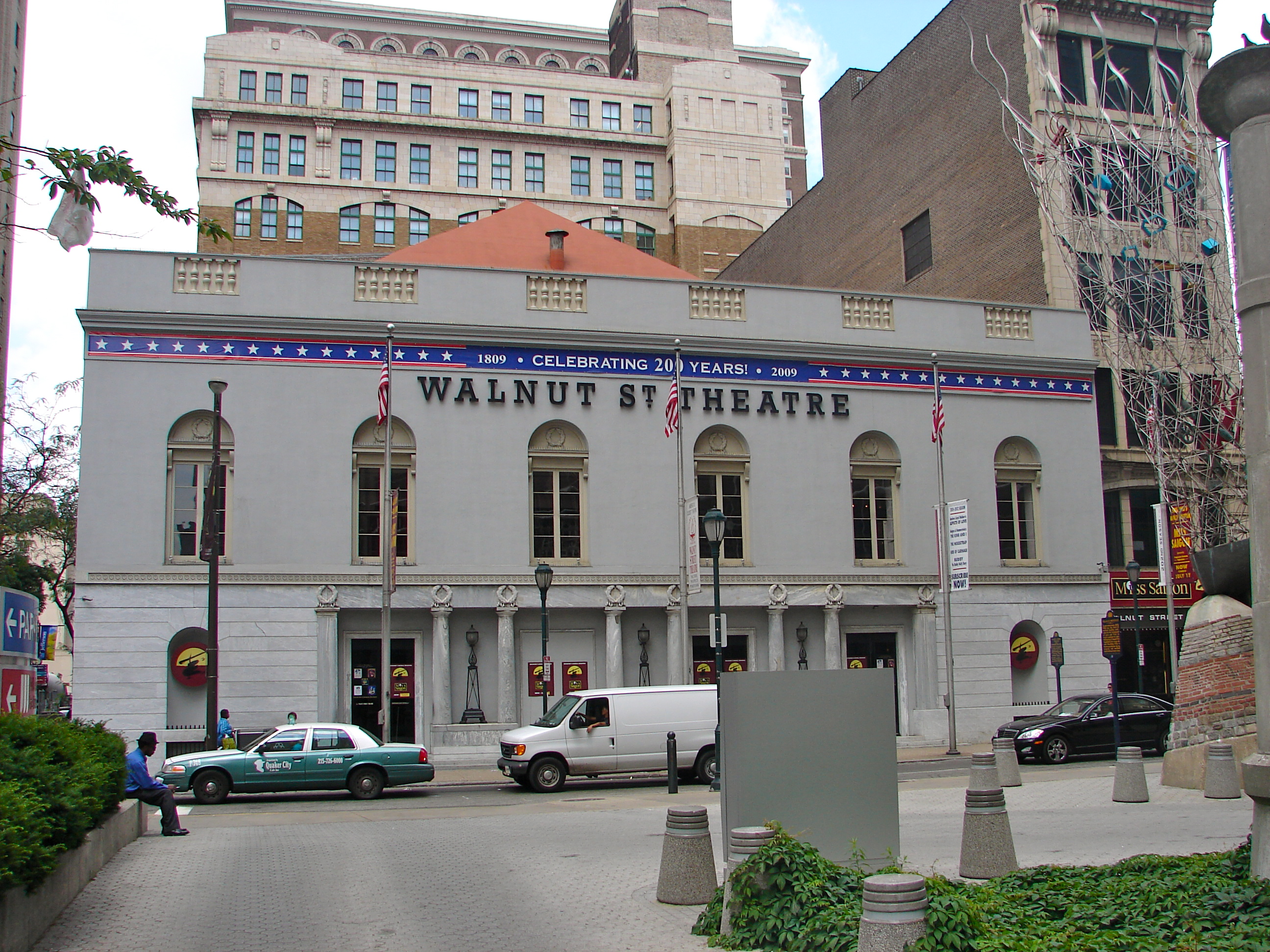 Walnut Street Theatre on the NRHP since October 15, 1966. At 9th and Walnut Streets in the Washington Square West neighborhood of Center City, Philadelphia, Pennsylvania. John Haviland, architect. Over 200 years old, claims to be the oldest theater in the US.